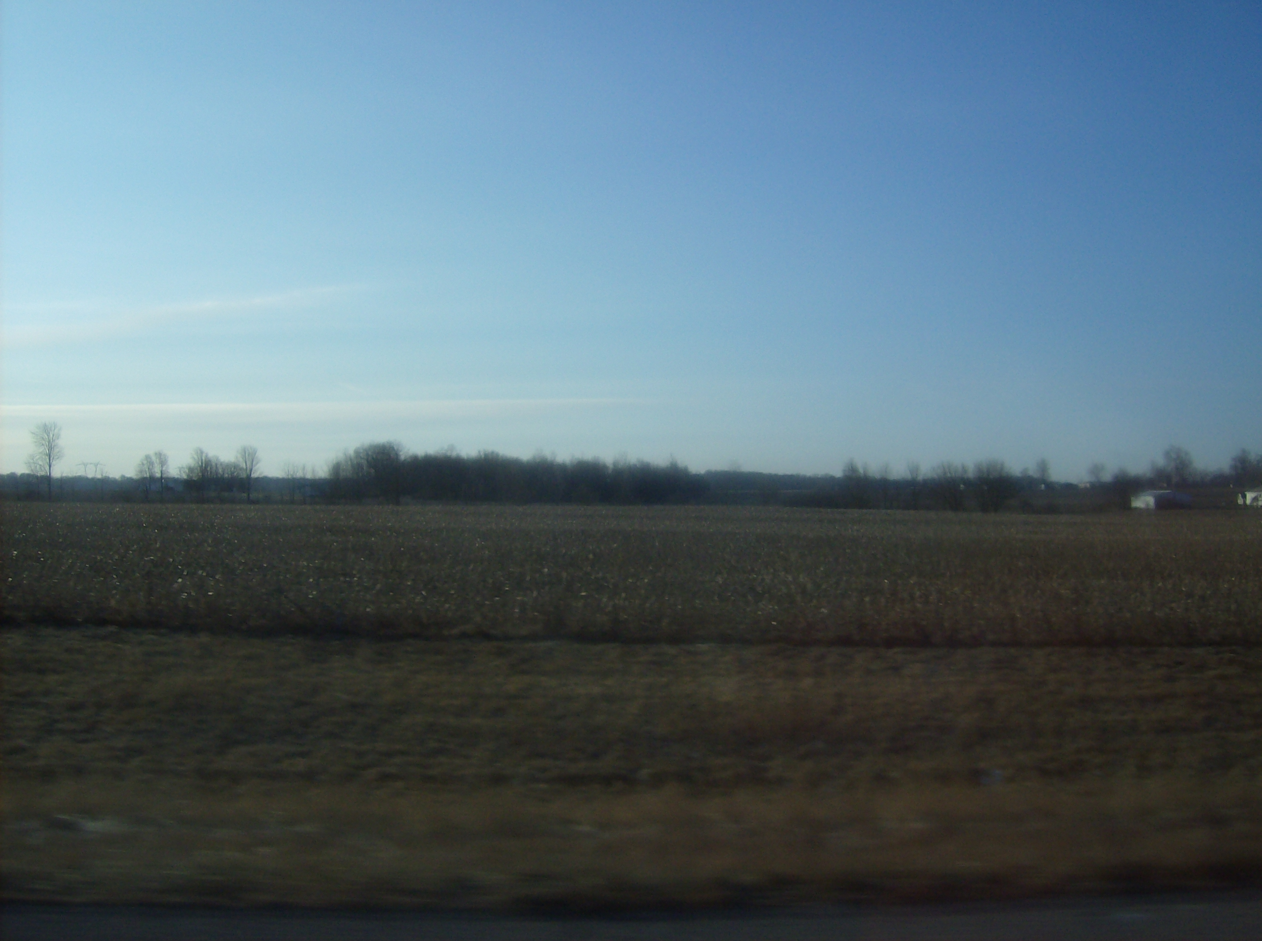 Countryside in northeastern Noble Township, Wabash County, Indiana, United States. Picture taken southeastward from U.S. Route 24.